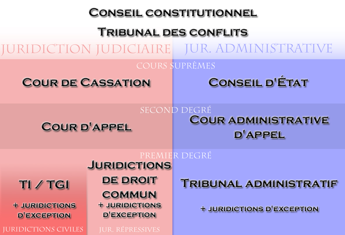 An overview over the french system of jurisdiction